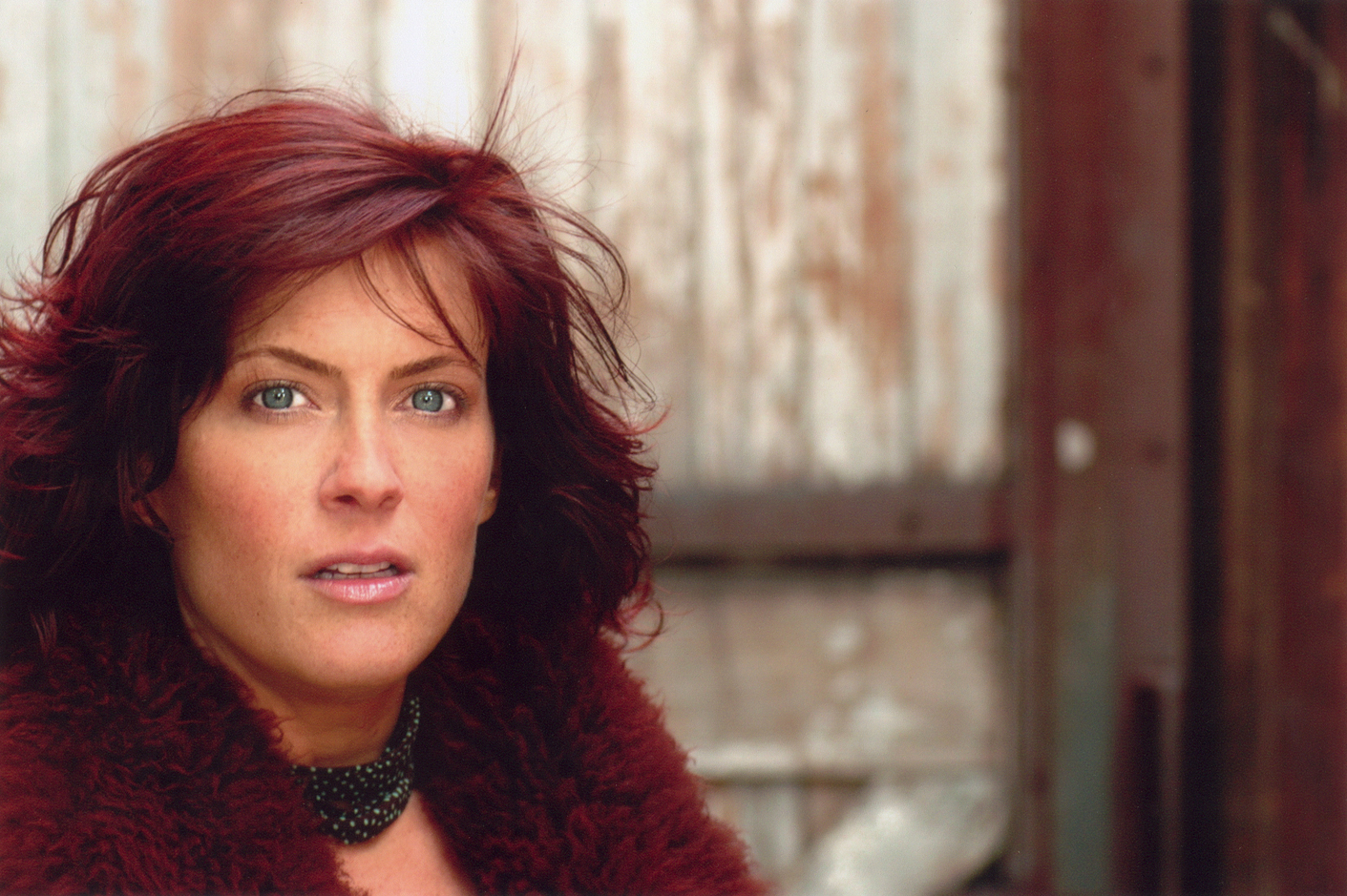 Vanessa Marshall Headshot 2012